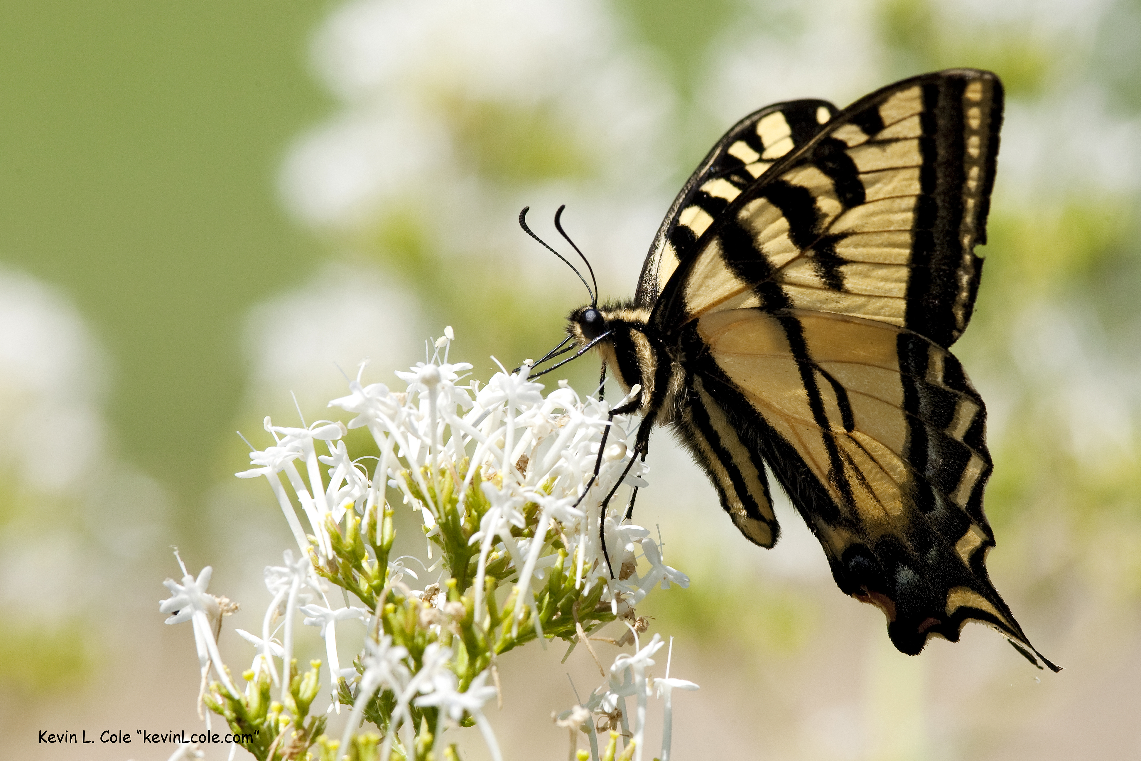 Western Tiger Swallowtail photographed during today's Photo Walk in the Botanical Gardens with Leaders Pat Brown and Teddy Llovet. A special thanks to both of you for sharing your knowledge of the Botanical Gardens and the creatures within. Taken with Canon 1D Mark III w/300 mm f/4L + 25 mm Extension Tube.